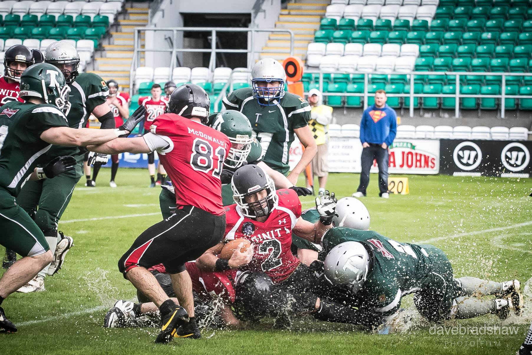 Defence wins Championships as was the case in Shamrock Bowl XXVIII